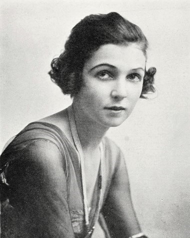 Irene Castle